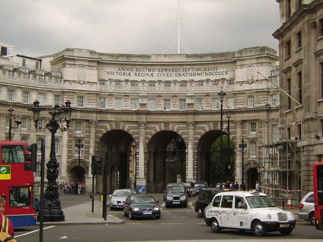 Admiralty Arch At the top of The Mall.